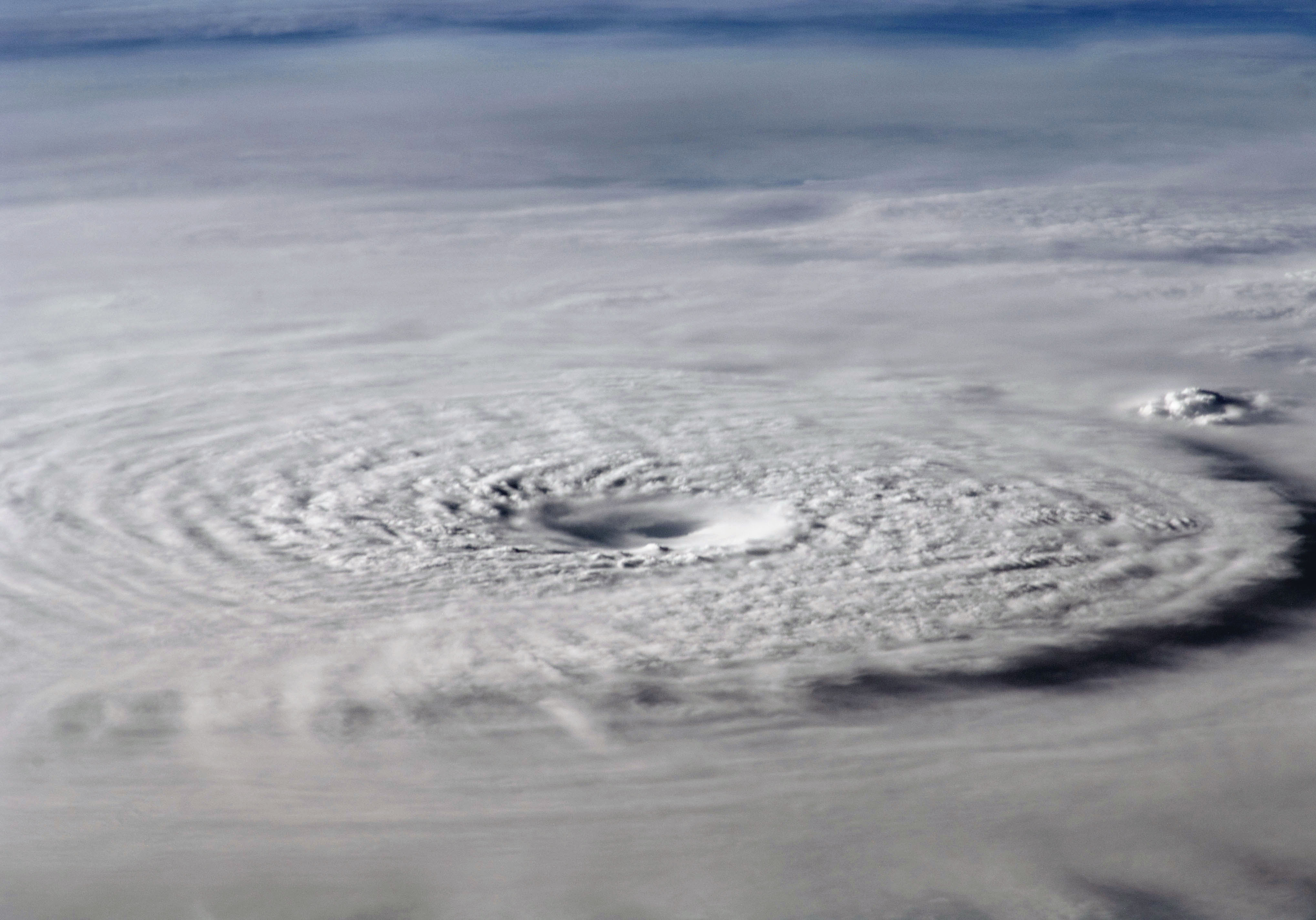 ISS034-E-005437 (2 Dec. 2012) --- One of the Expedition 34 crew members aboard the International Space Station captured this still image of Super Typhoon Bopha on Dec. 2, 2012. The storm was bearing down on the Philippines with winds of 135 miles per hour. Meteorologists are predicting that the storm will make landfall on Mindanao in the early morning of Dec. 4 local time, as either a category 4 or 5. ISS Crew Earth Observations: ISS034-E-005437IdentificationMissionISS034 (Expedition 34)RollEFrame005437Country or Geographic NamePACIFIC OCEANFeaturesPAN-SUPER TYPHOON BOPHA, EYE FEATURE, ISSCenter Point Latitude6.0° NCenter Point Longitude137.7° ECameraCamera TiltHigh ObliqueCamera Focal Length180 mmCameraNikon D2XsFilm4288 x 2848 pixel CMOS sensor, RGBG imager color filter.QualityPercentage of Cloud Cover76-100%Nadir What is Nadir?Date2012-12-01Time21:31:34Nadir Point Latitude16.9° NNadir Point Longitude140.6° ENadir to Photo Center DirectionSouthSun Azimuth116°Spacecraft Altitude227 nautical miles (420 km)Sun Elevation Angle8°